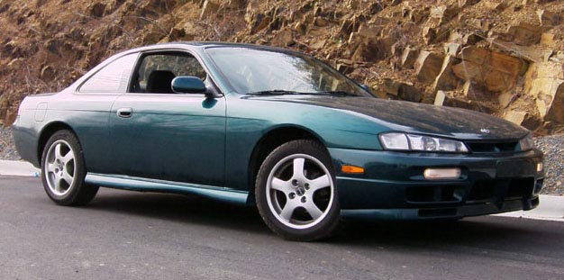 I took this picture of a friend's car.